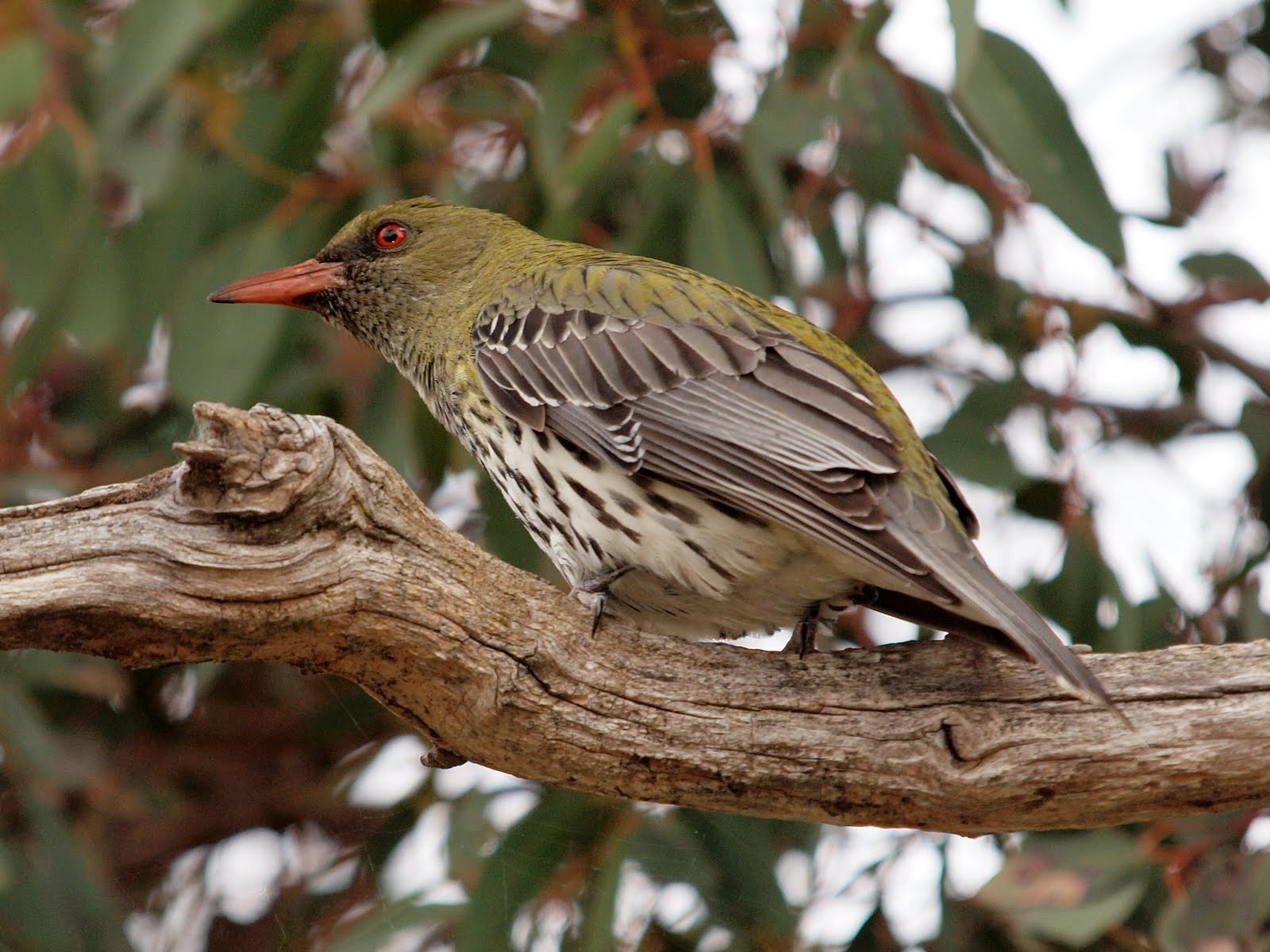 An Olive-backed Oriole in Canberra, Australia.